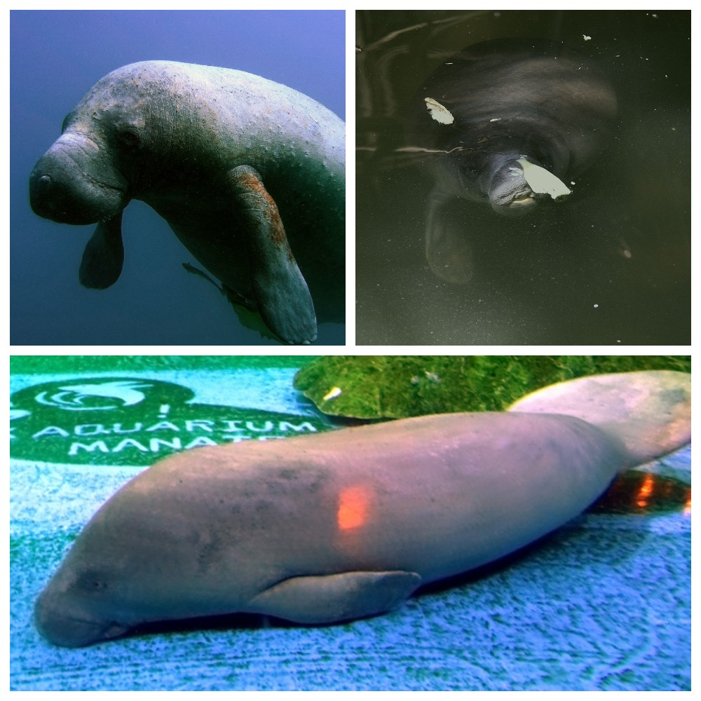 Clockwise from upper left: West Indian manatee (Trichechus manatus), Amazonian manatee (Trichechus inunguis), African manatee (Trichechus senegalensis).